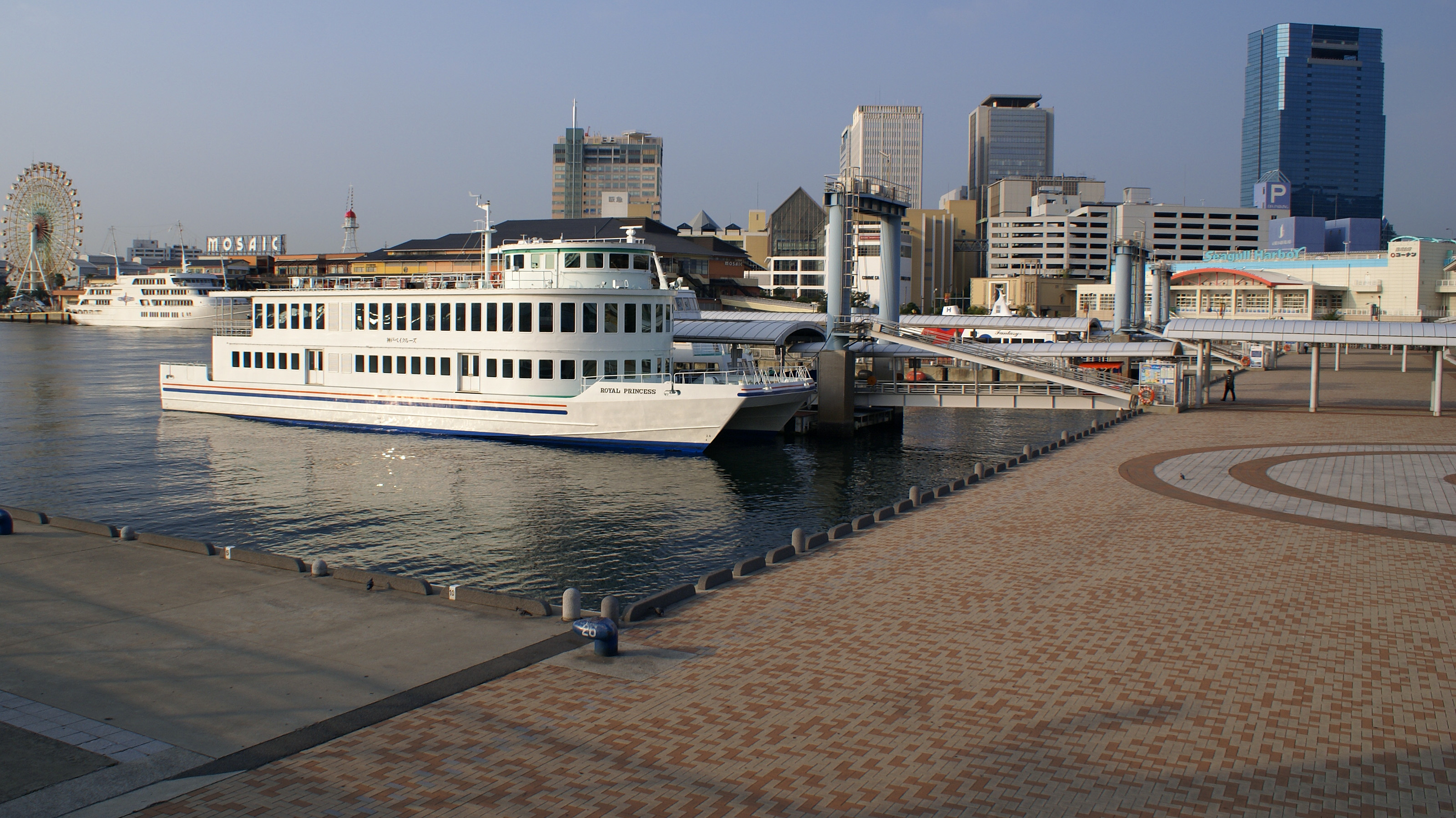 "Royal Princess" who anchors at "Nakatottei Central Terminal" of the Kobe harbor ( Kobe, Hyogo, Japan)